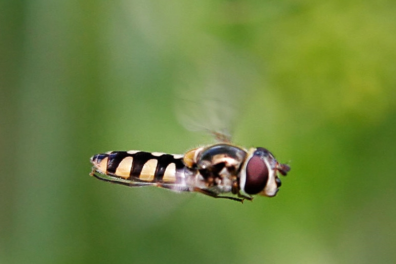 Hoverfly